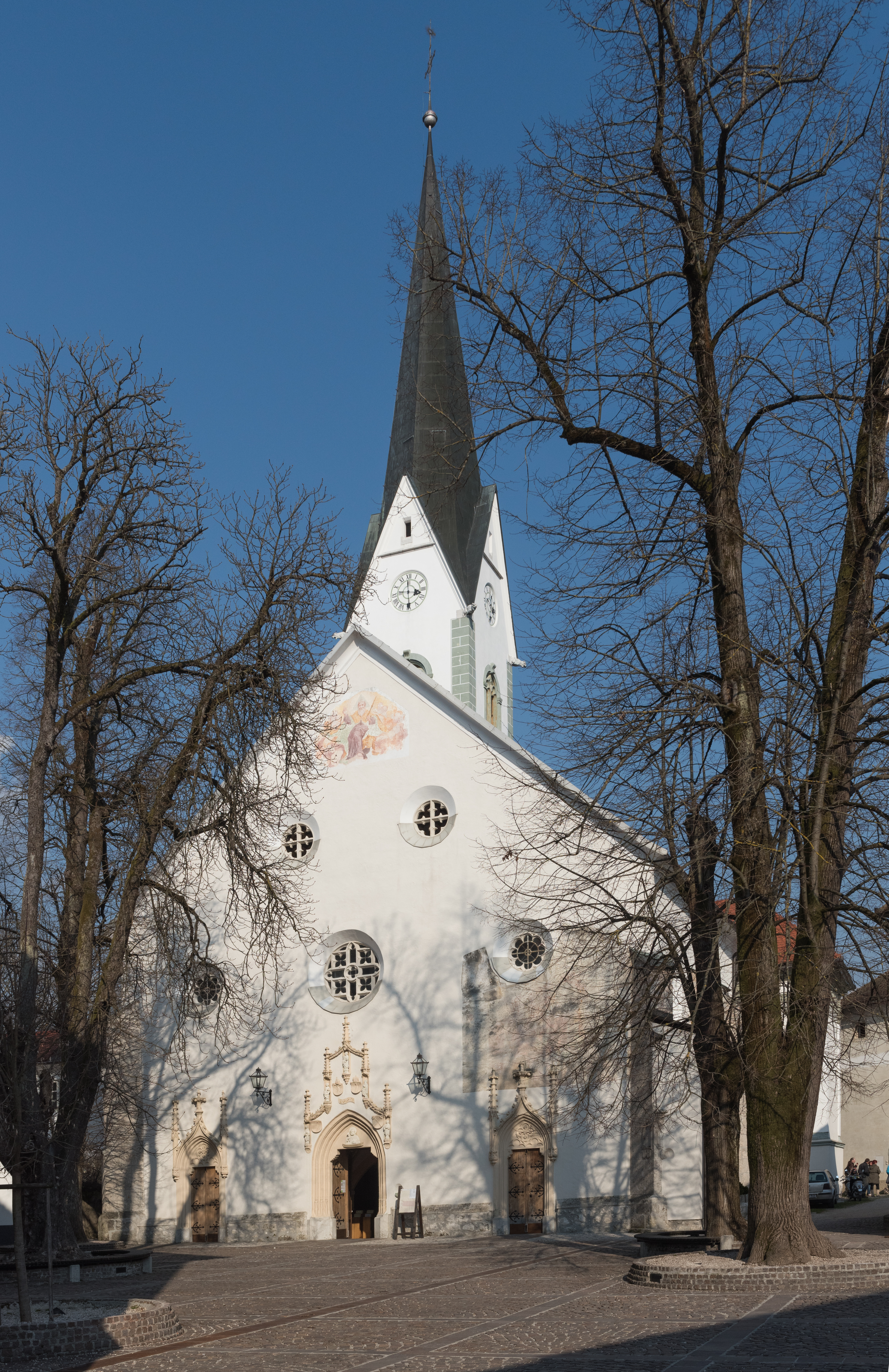 St. Peter's Church, municipality Radovljica, Upper Carniola, Slovenia, EU